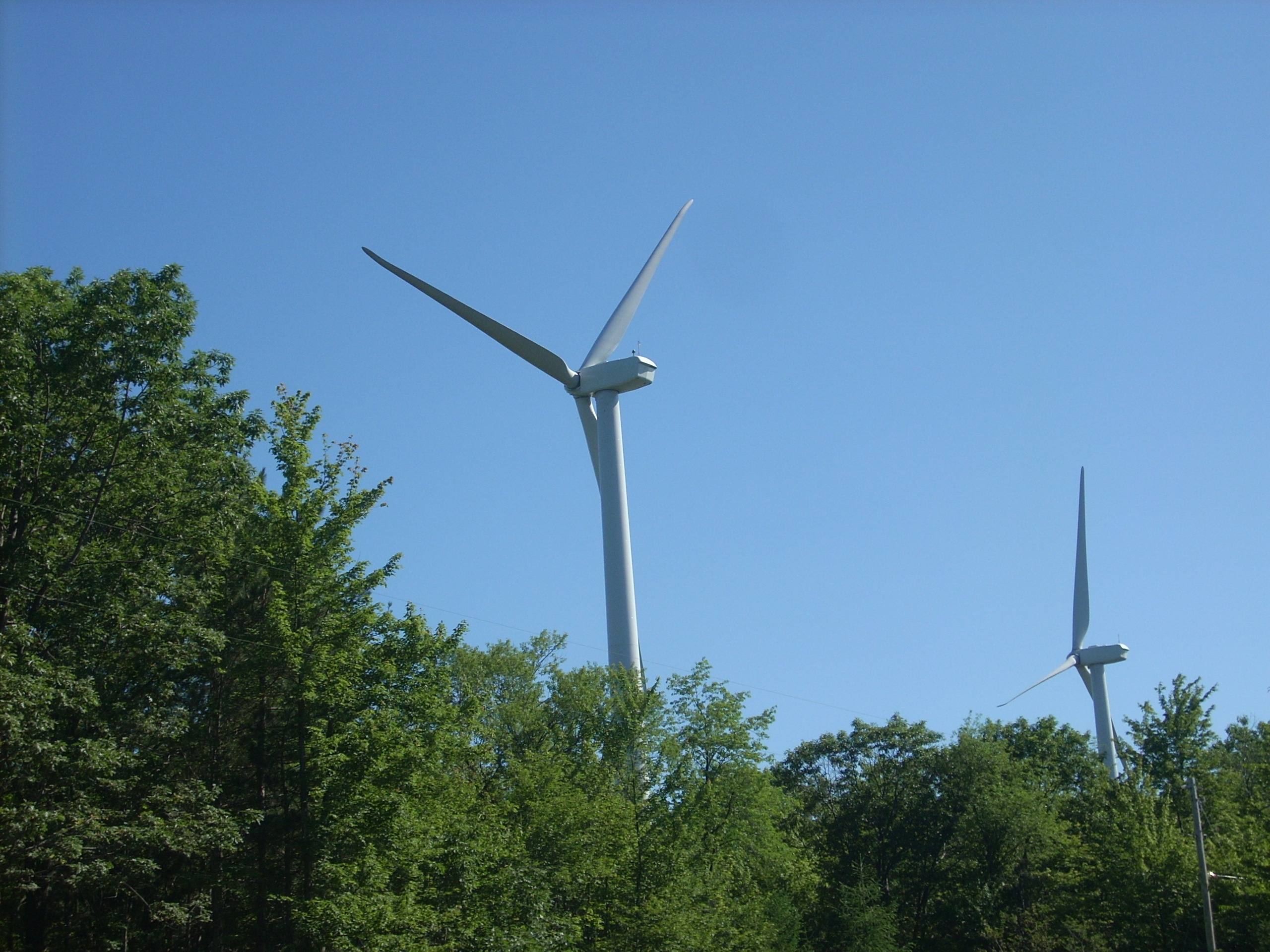 North Central Pennsylvania has undergone some major changes since I moved to North Carolina in 2000. These windmills are on Armenia Mountain in eastern Sullivan Township, Tioga County, Pennsylvania. They weren't moving much when I saw them.